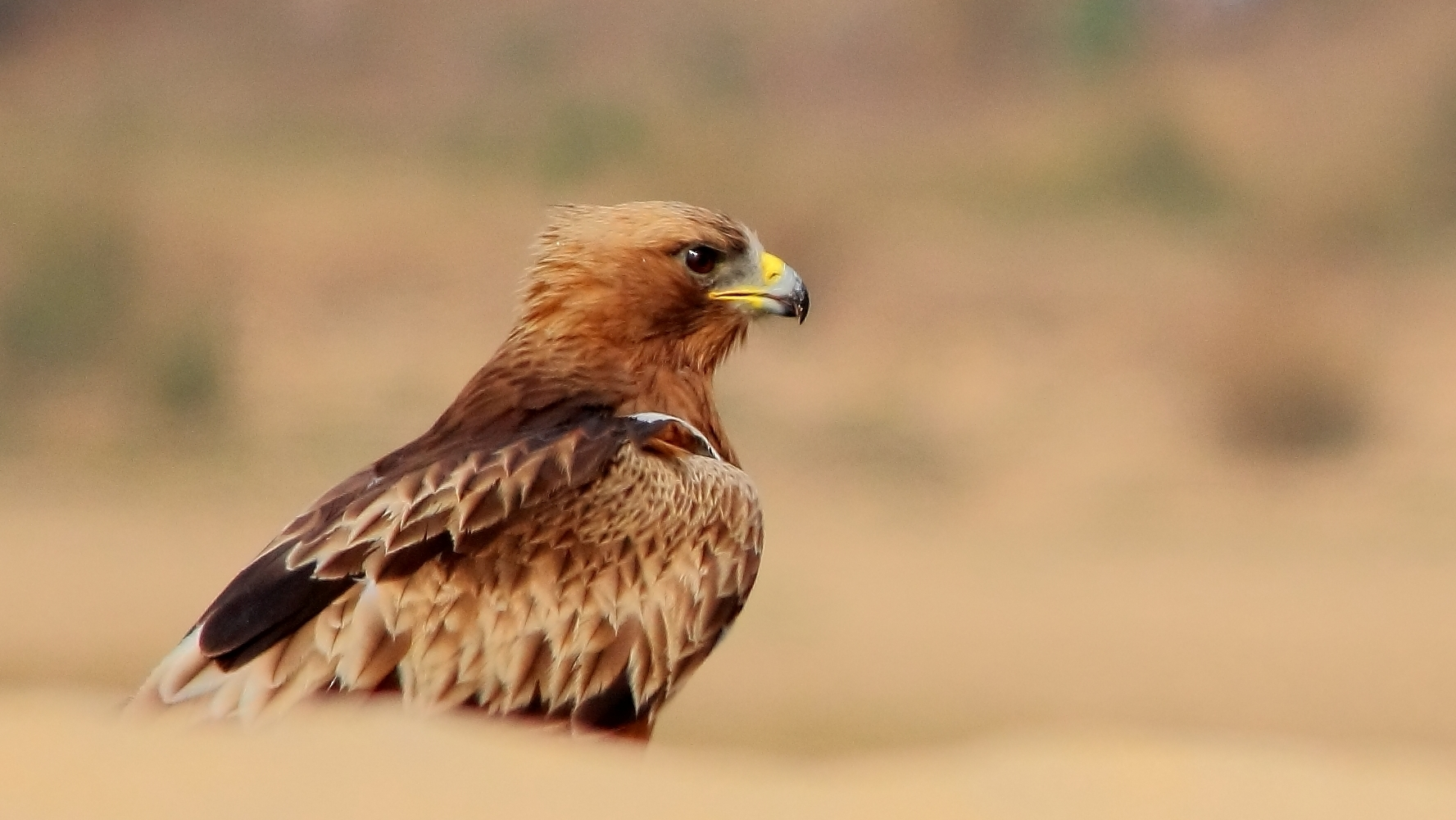 It breeds in southern Europe, North Africa and across Asia. It is migratory, wintering in Sub-Saharan Africa and South Asia.